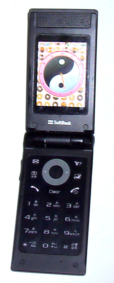 I thought there needed to be a picture of a Japanese cellphone. So I provide it here.